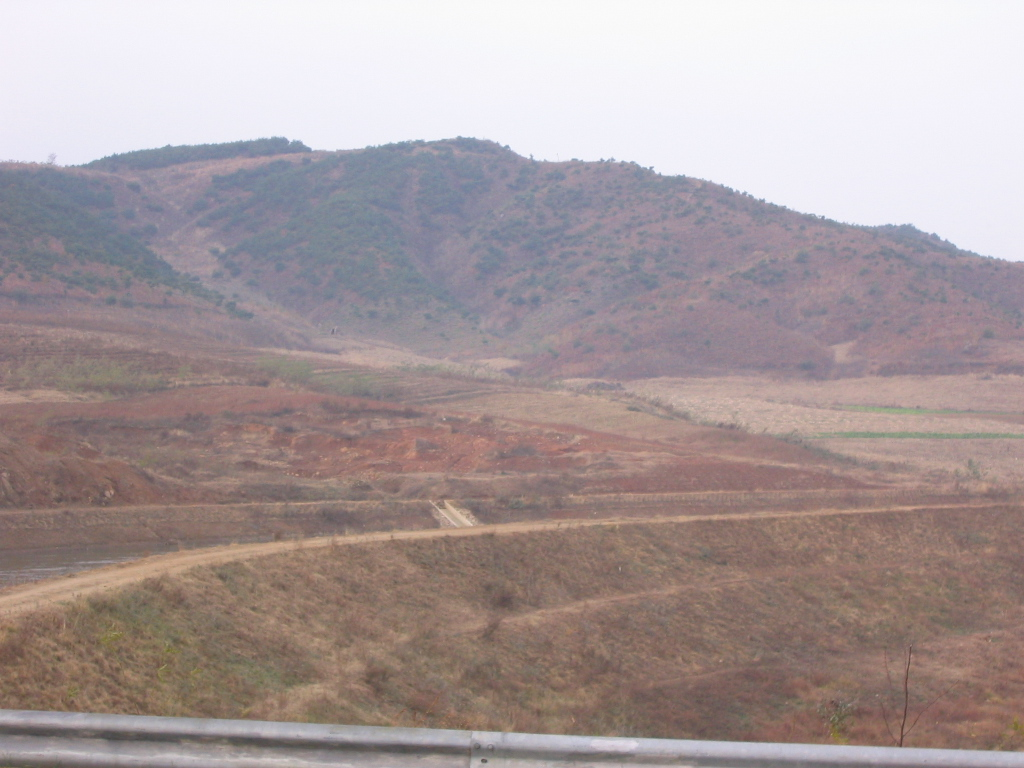 Deforestation in North Korea